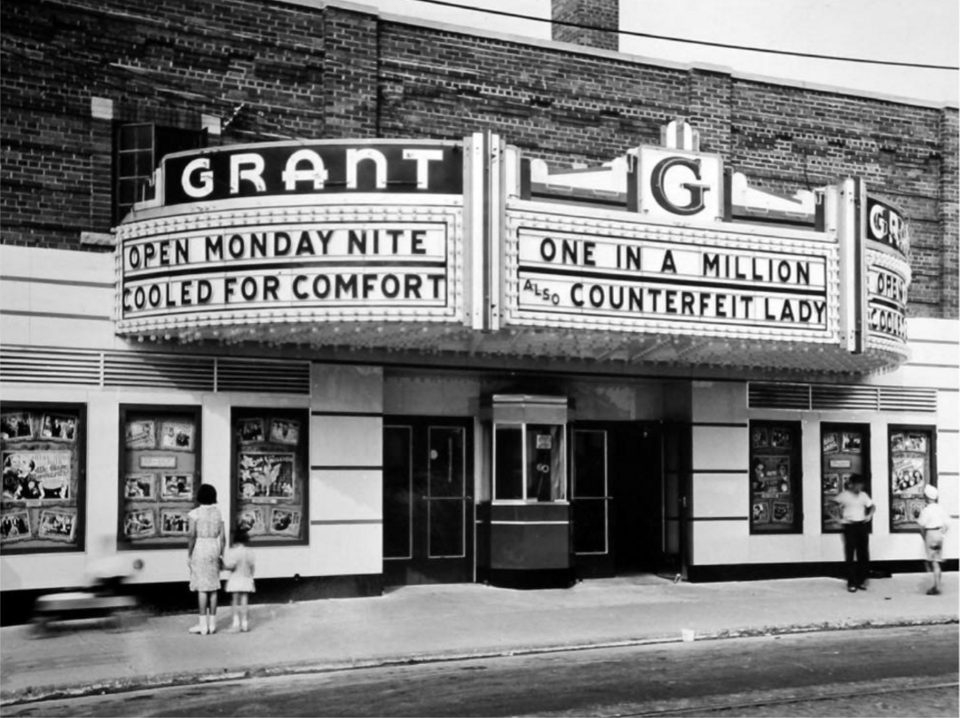 The Grant Theater, in Toronto, in 1940, showing the films One in a Million and Counterfeit Lady (1936). This image is available from the City of Toronto Archives, listed under the archival citation fonds 251, series 1278, item 79. This tag does not indicate the copyright status of the attached work. A normal copyright tag is still required. See Commons:Licensing for more information.